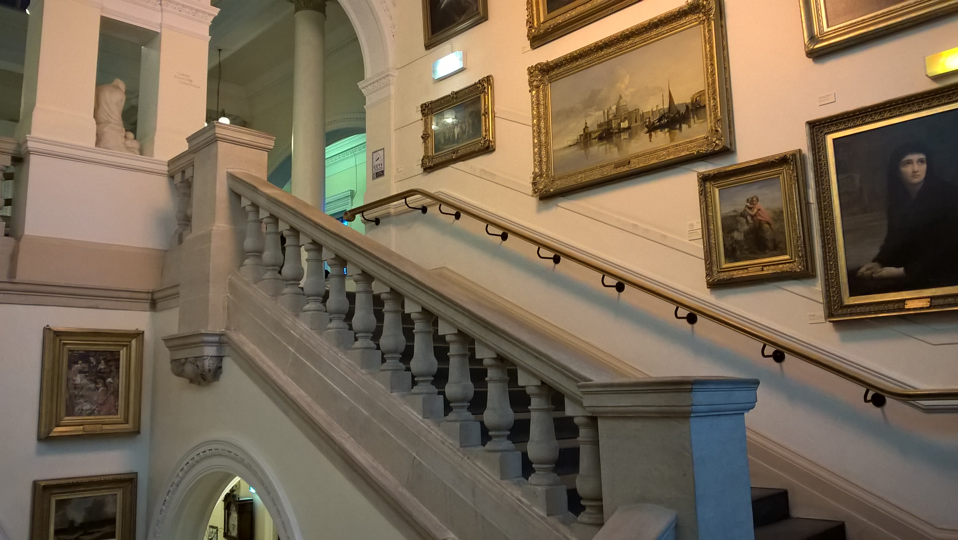 Staircase with paintings in Bury Art Museum. Balustrade, handrail.